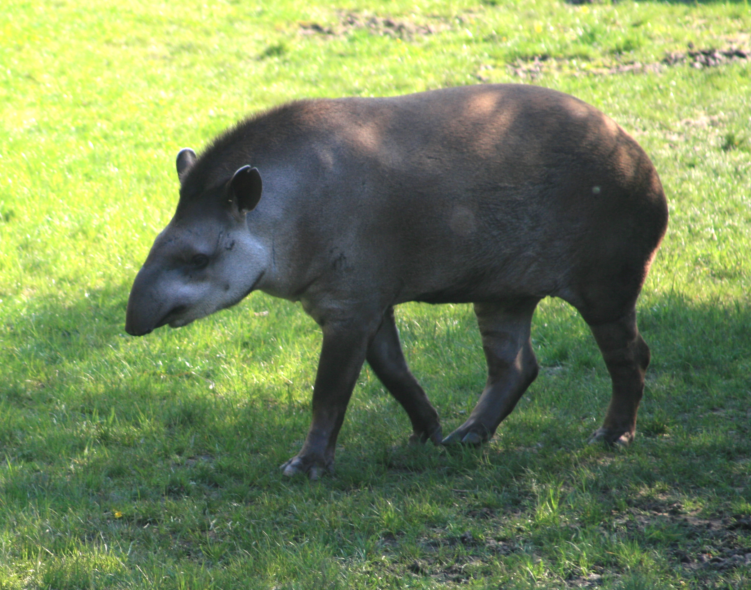 Brazilian Tapir, Tapirus terrestris in ZOO Praha, Czech Republic